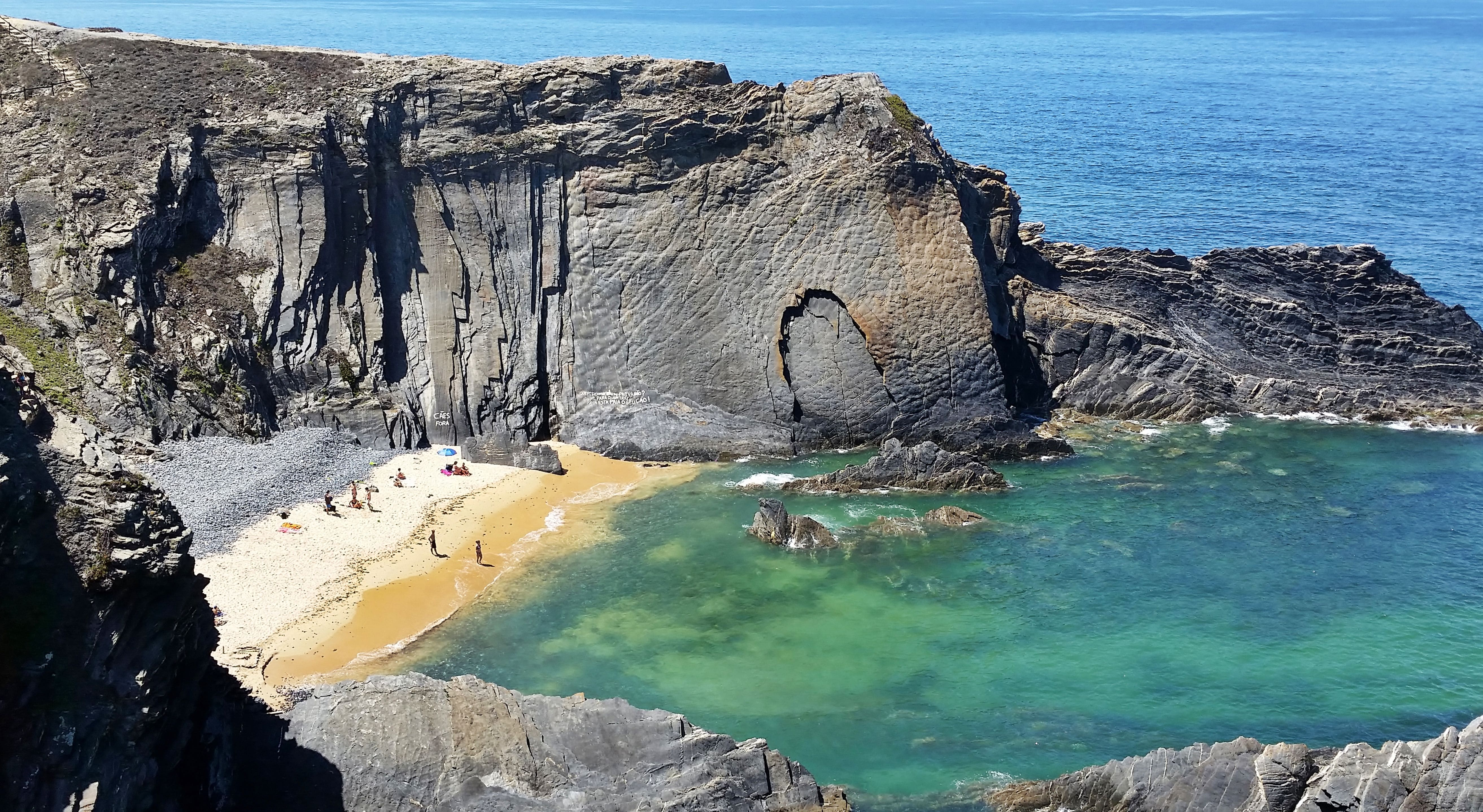 Alentejo and Vicentina Coastline, Portugal